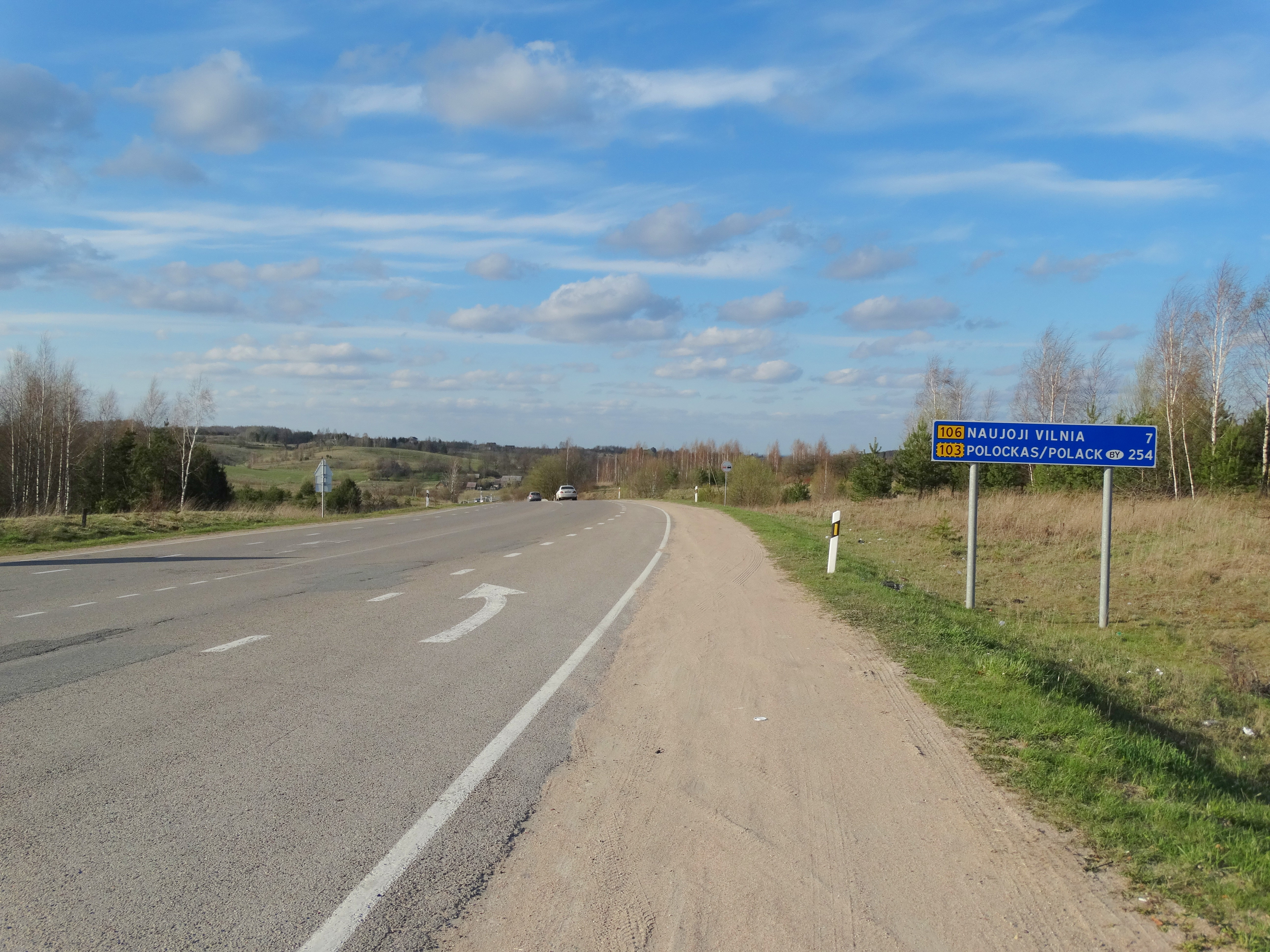 Regional road 106, Vilnius district, Lithuania